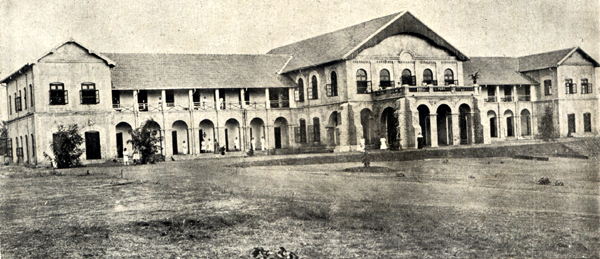 St. Agnes College in 1921